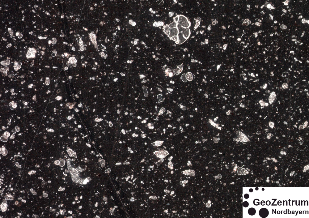 Wackestone (Dunham-classification). Width of Picture is 10mm. Picture by courtesy of Axel Munnecke, Geozentrum Nordbayern